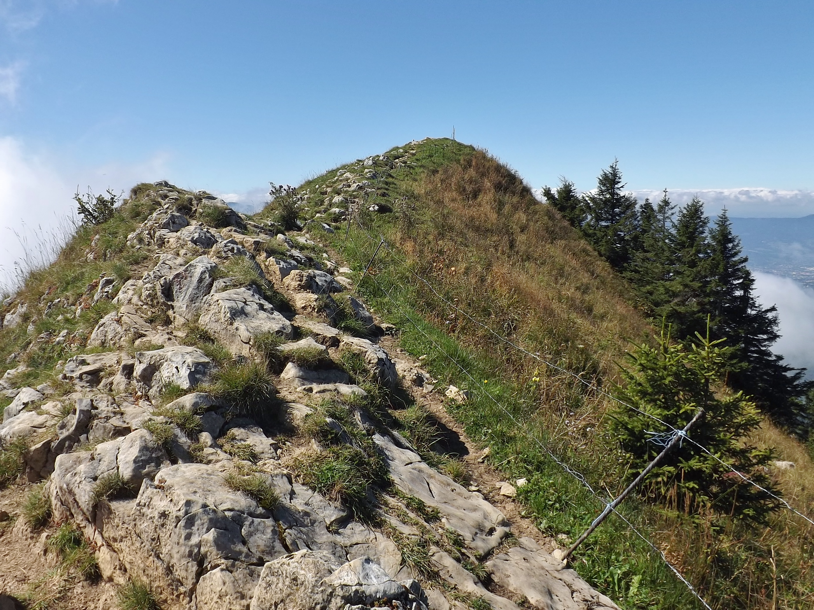 Sight of the top of the Pointe de la Galoppaz mount, in the Bauges mountains close to Chambéry in Savoie, France.